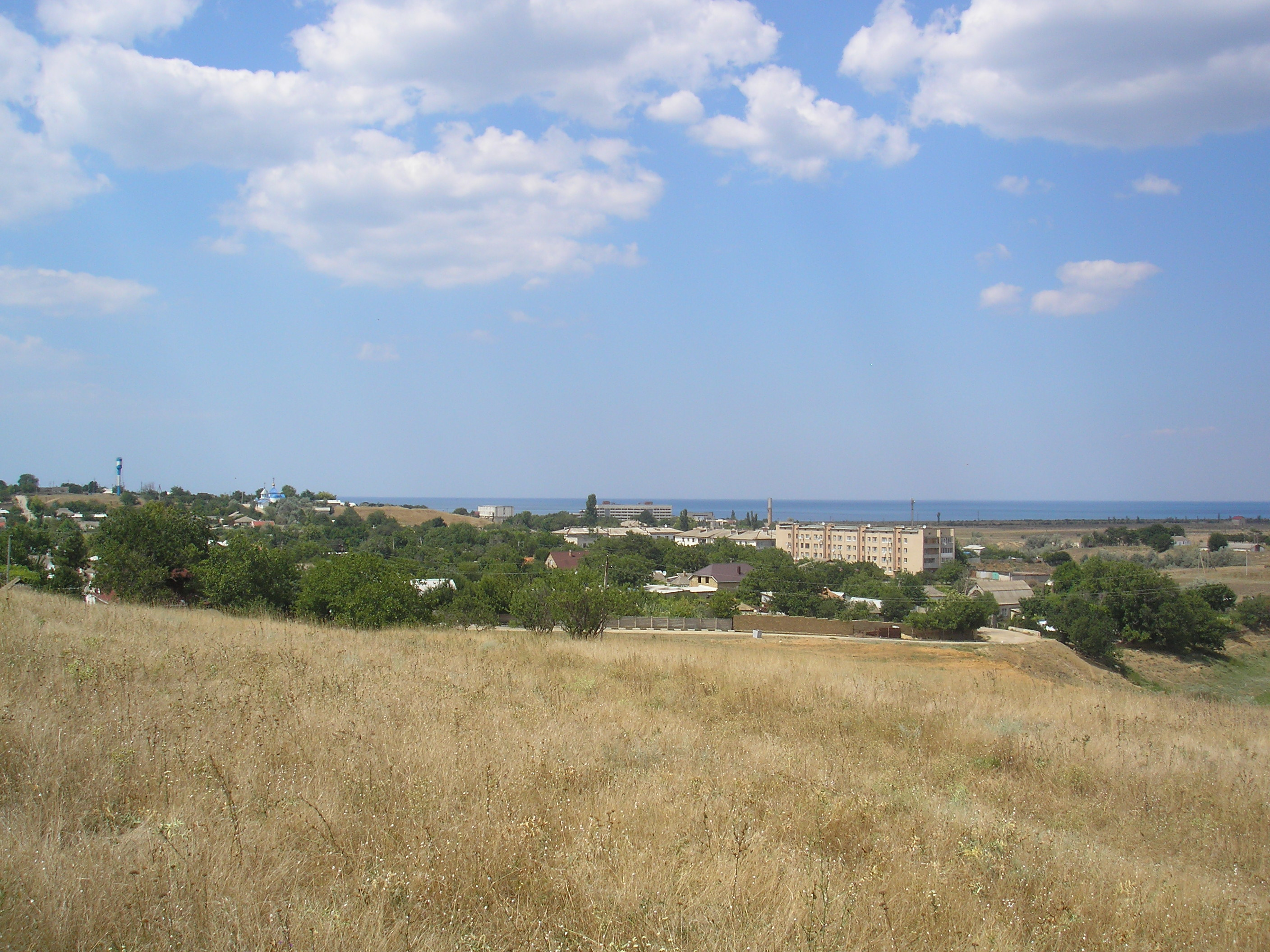 Village Beregovoe, Bakhchisaray district, Crimea